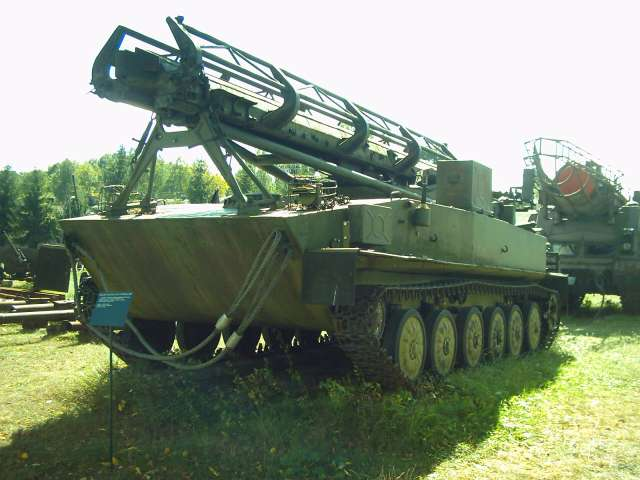 T-5 C Mars FROG 2 rocket launcher at the Muzeum im. Orła Białego in Skarżysko Kamienna.